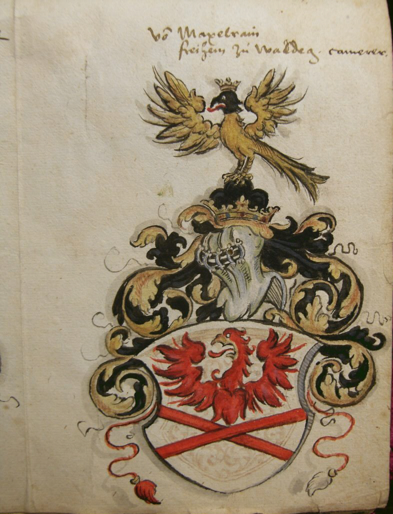 Page (or page detail) from a 16th century German armorial („Allerlay Wapen“) Von Maxlrain Freiherrn zu Waldegg